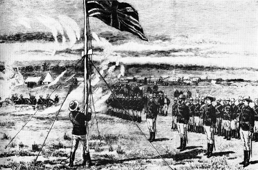 The Pioneer Column of the British South Africa Company reached the site of Fort Salisbury on 12 September 1890, which was celebrated from 1920 as Pioneers' Day. The next morning, at 10 am on 13 September 1890, a full dress parade of the column was held. The seven-pounder gun fired a royal salute and Canon Balfour said a prayer as the column's Lieutenant Edward Tyndale-Biscoe hoisted the flag atop the kopje overlooking the site of the future capital, Salisbury.